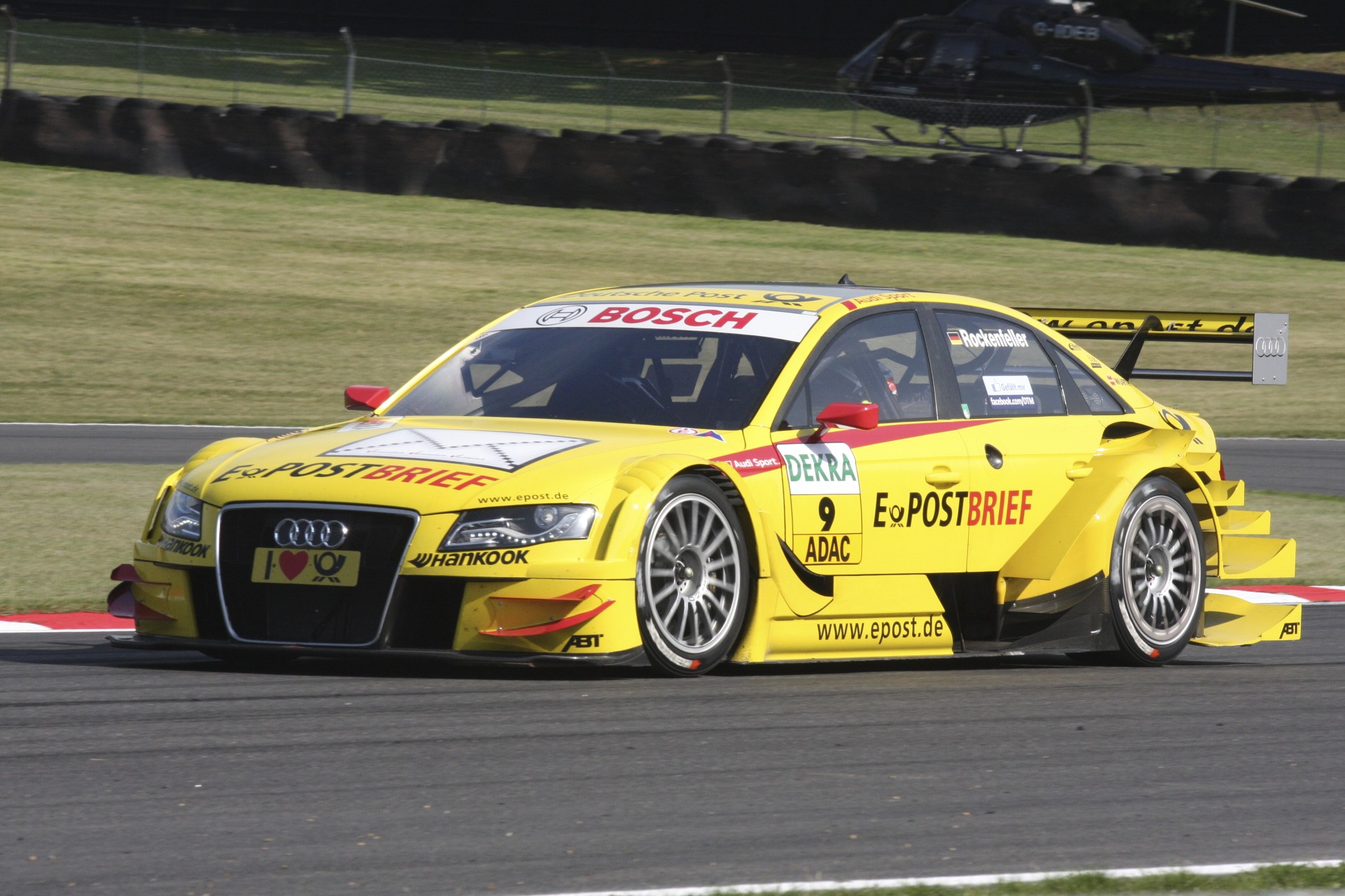 Mike Rockenfeller in Brands Hatch, September 2011